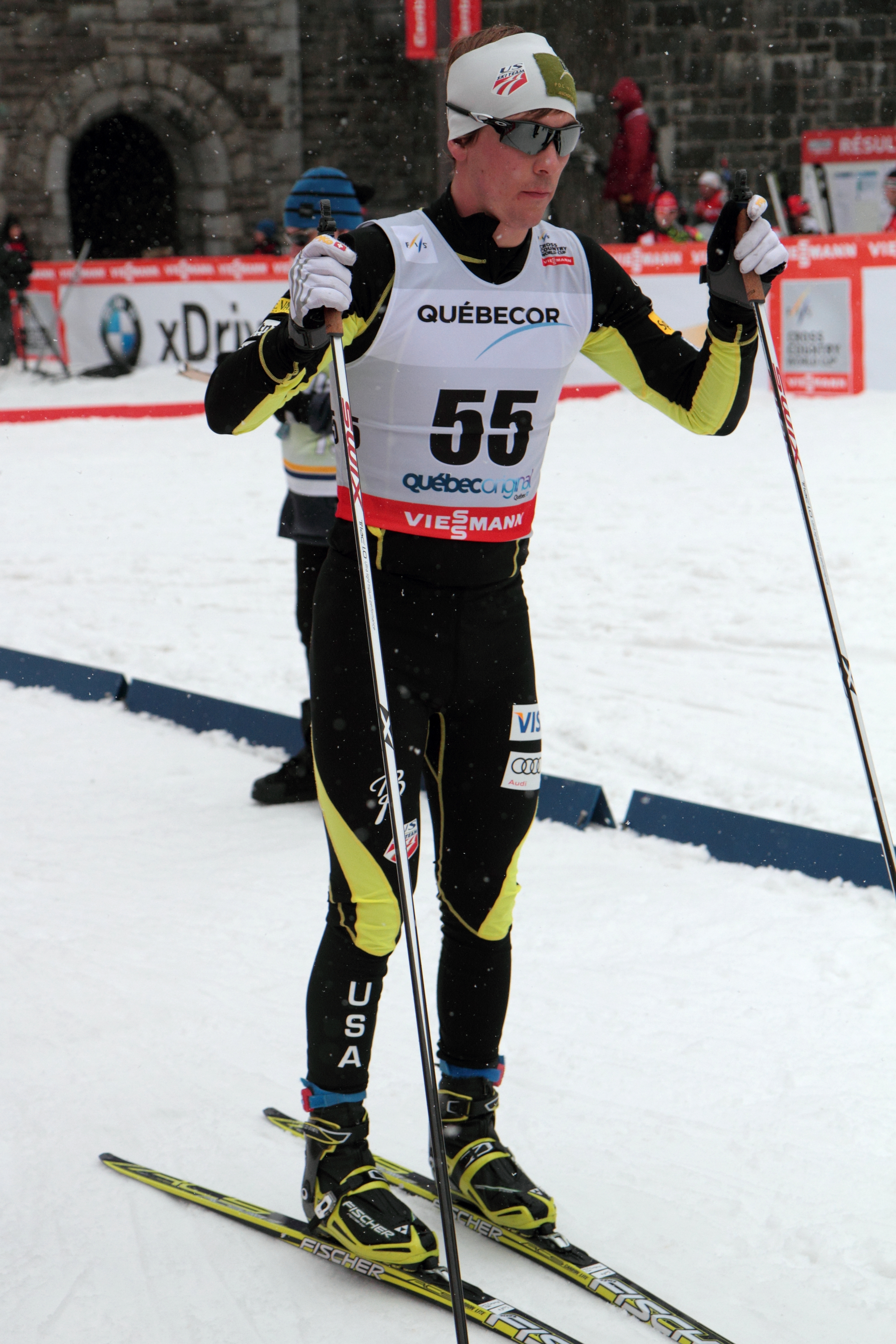 Reese Hanneman, FIS Cross-Country World Cup 2012, Quebec, Canada.